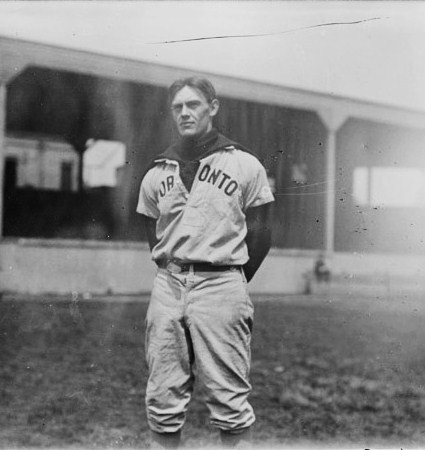 Pop Williams, former Major League Baseball pitcher.